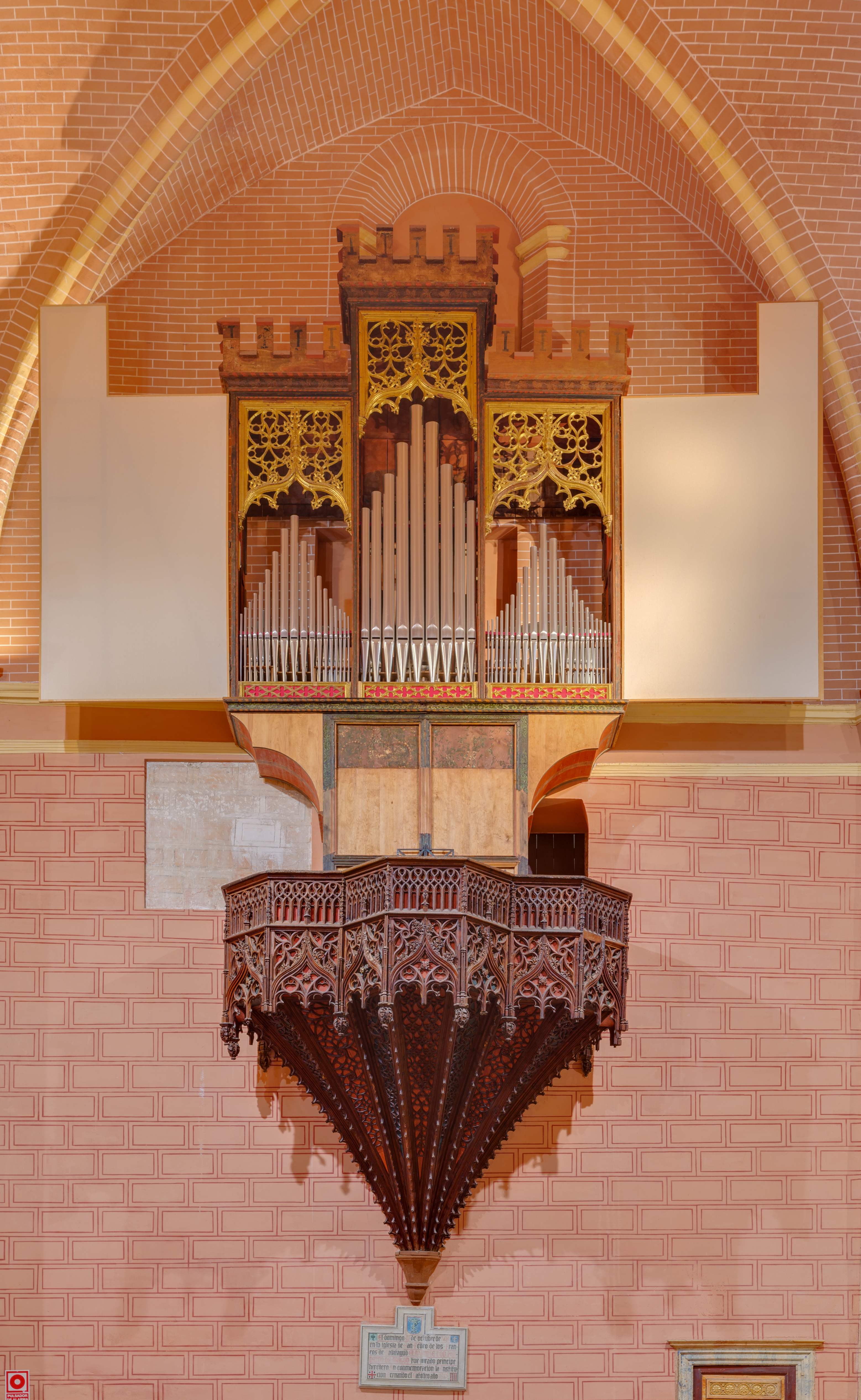 Pipe organ (end of the 15th century), church of San Pedro de los Francos, Calatayud, Spain